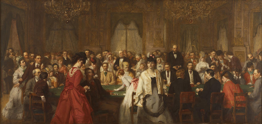 Salon d'Or